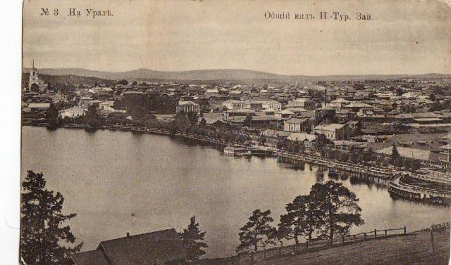 General view of Nizhneturinsk, beg. XX cent.